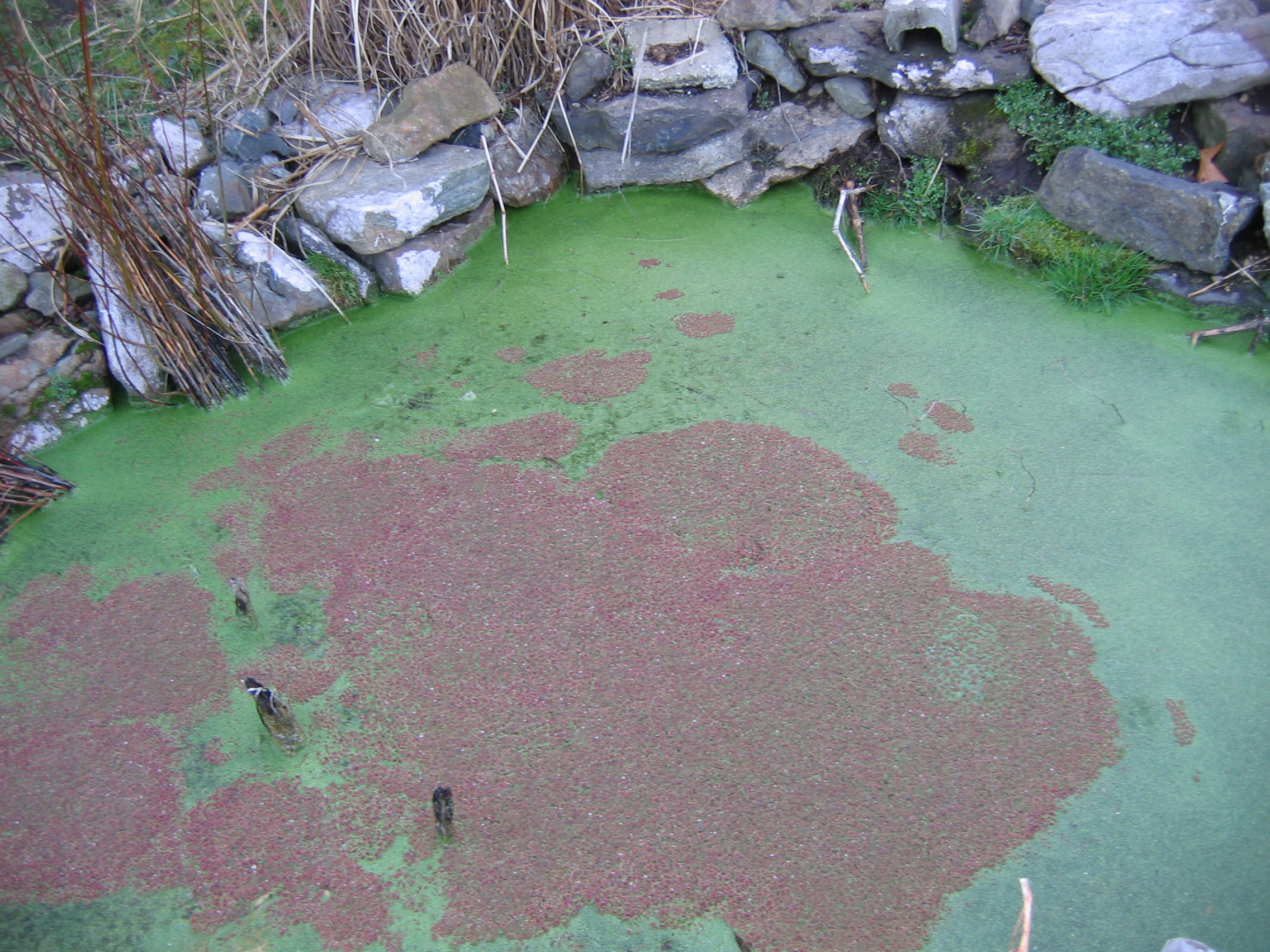 Azolla cristata and Lemna in a pond, showing winter color of the azolla